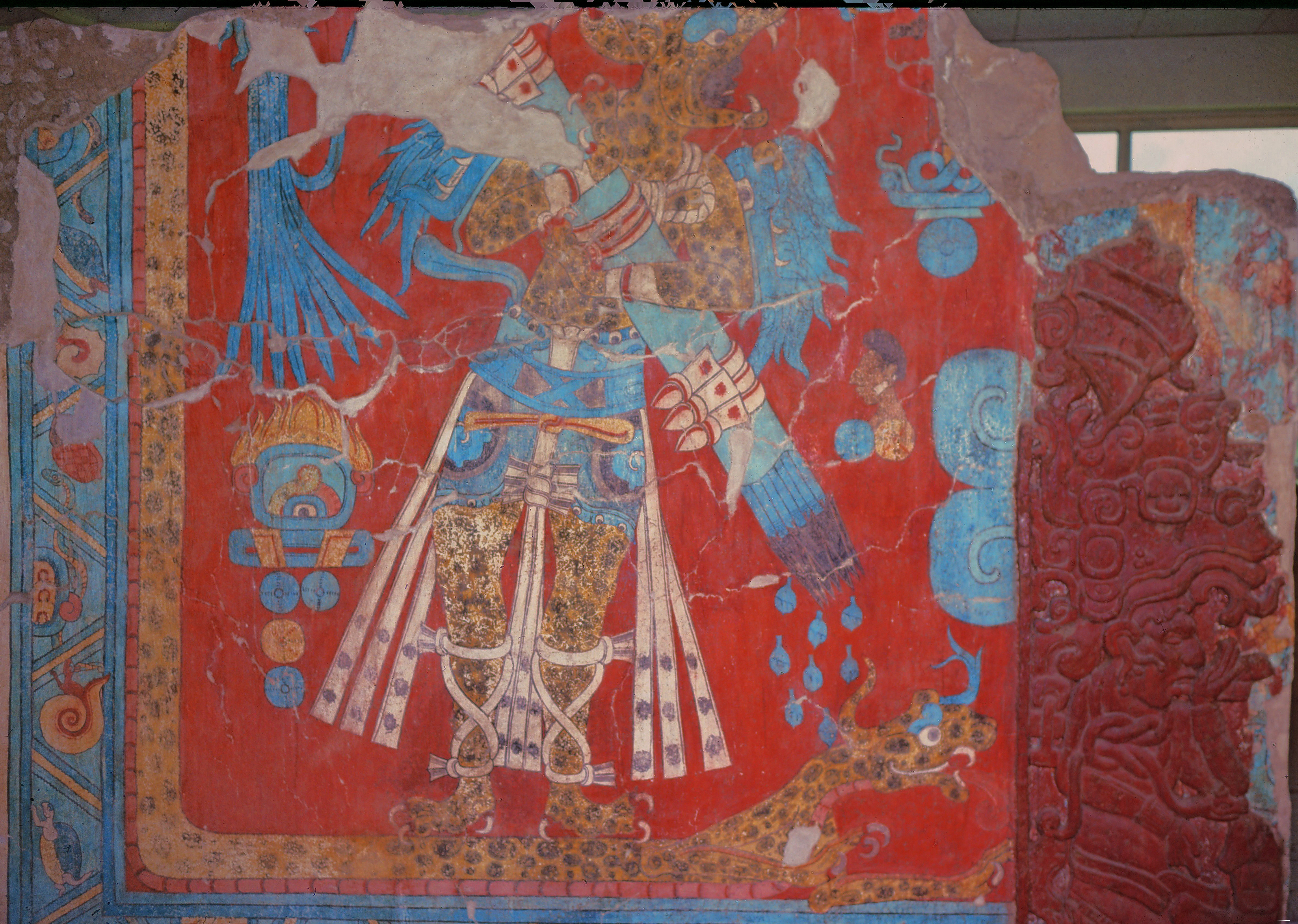 Cacaxtla, Tlaxcala, Mexico: Room 1, left mural